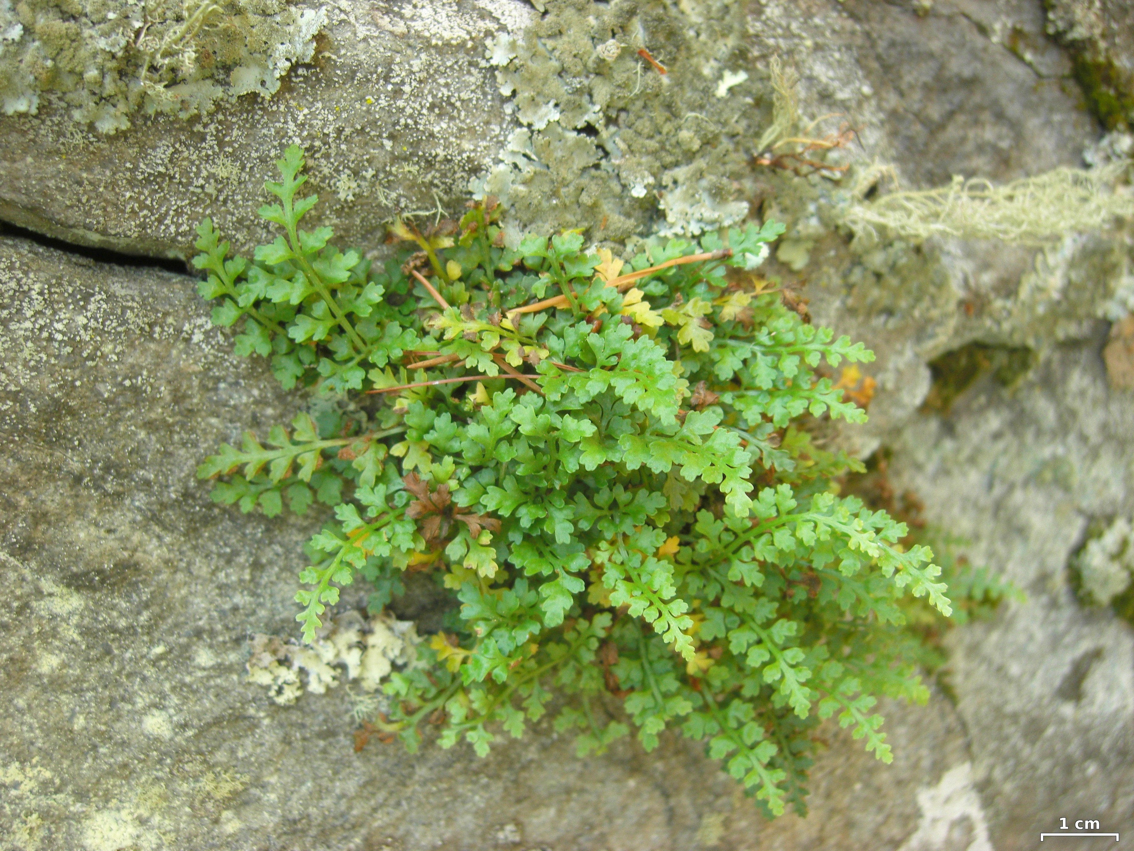 lower Cataloochee Creek, Smokies, North Carolina, 20110530